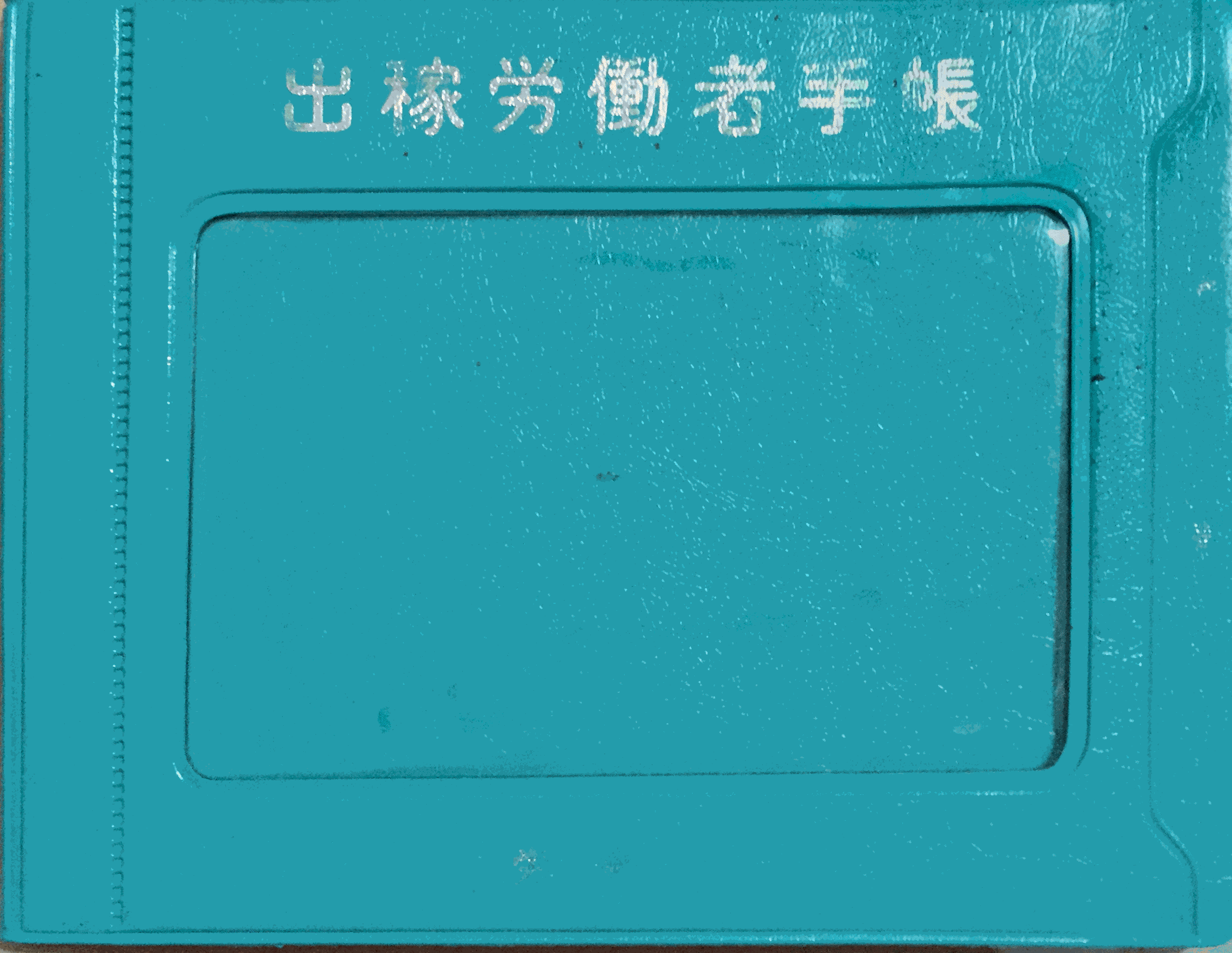 Migrant workers notebook that has been issued in the Hello Work of Okinawa Prefecture in November 1997